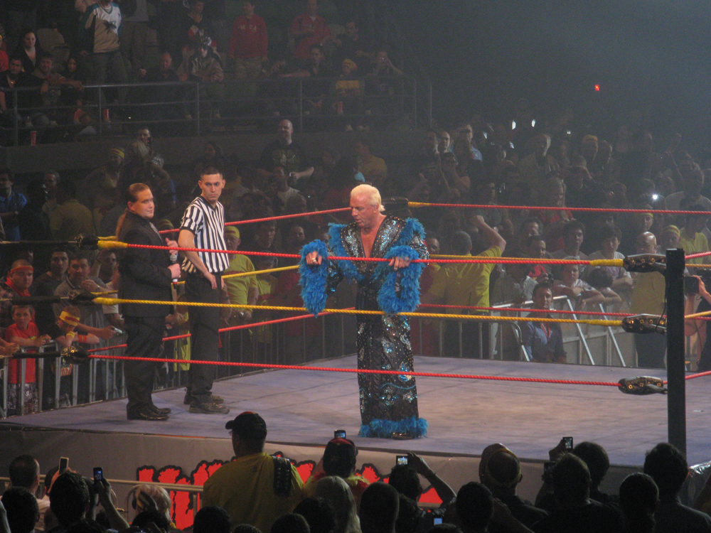 Hulkamania Tour @ Rod Laver Arena. Melbounre, AUS.